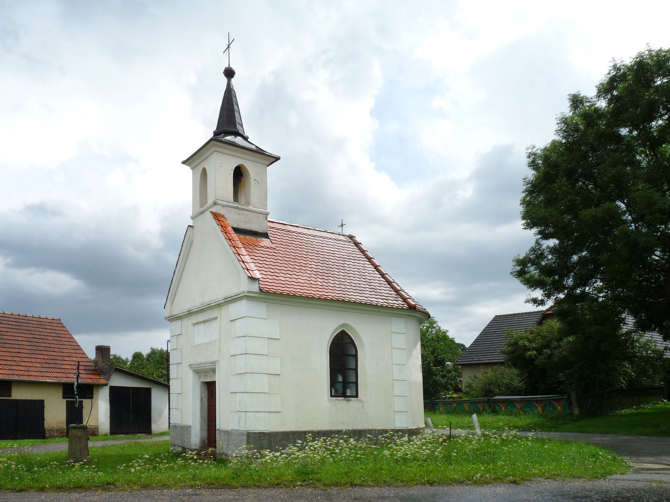 Chapel in the village of Chmelná, Pelhřimov District, Czech Republic.